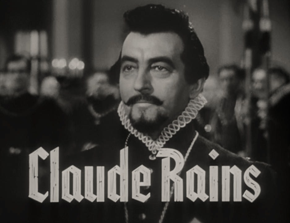 Claude Rains in The Sea Hawk - trailer (cropped screenshot)